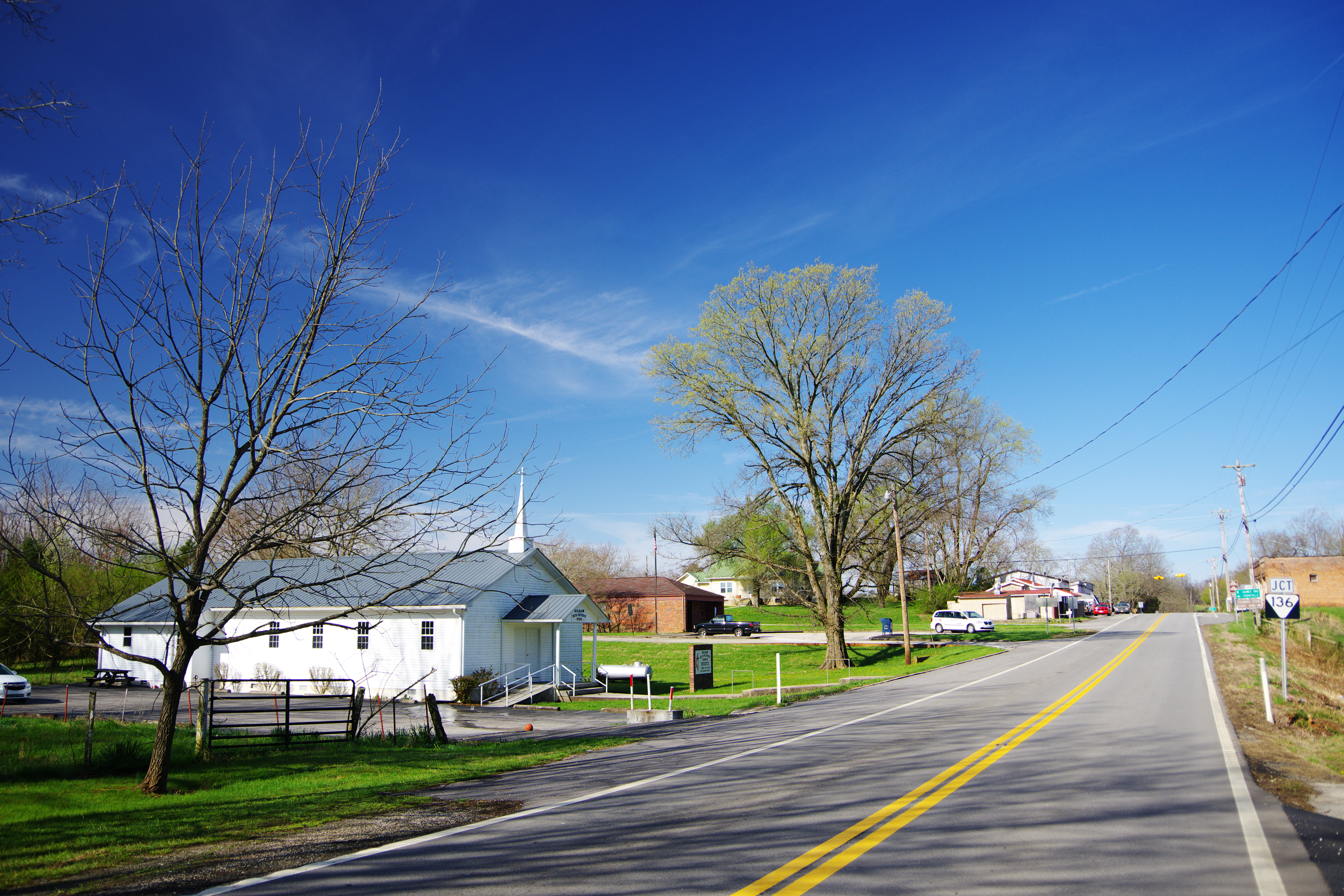 Tennessee State Route 85 (Hilham Highway), looking west toward its intersection with State Route 136, in Hilham, Tennessee, United States.